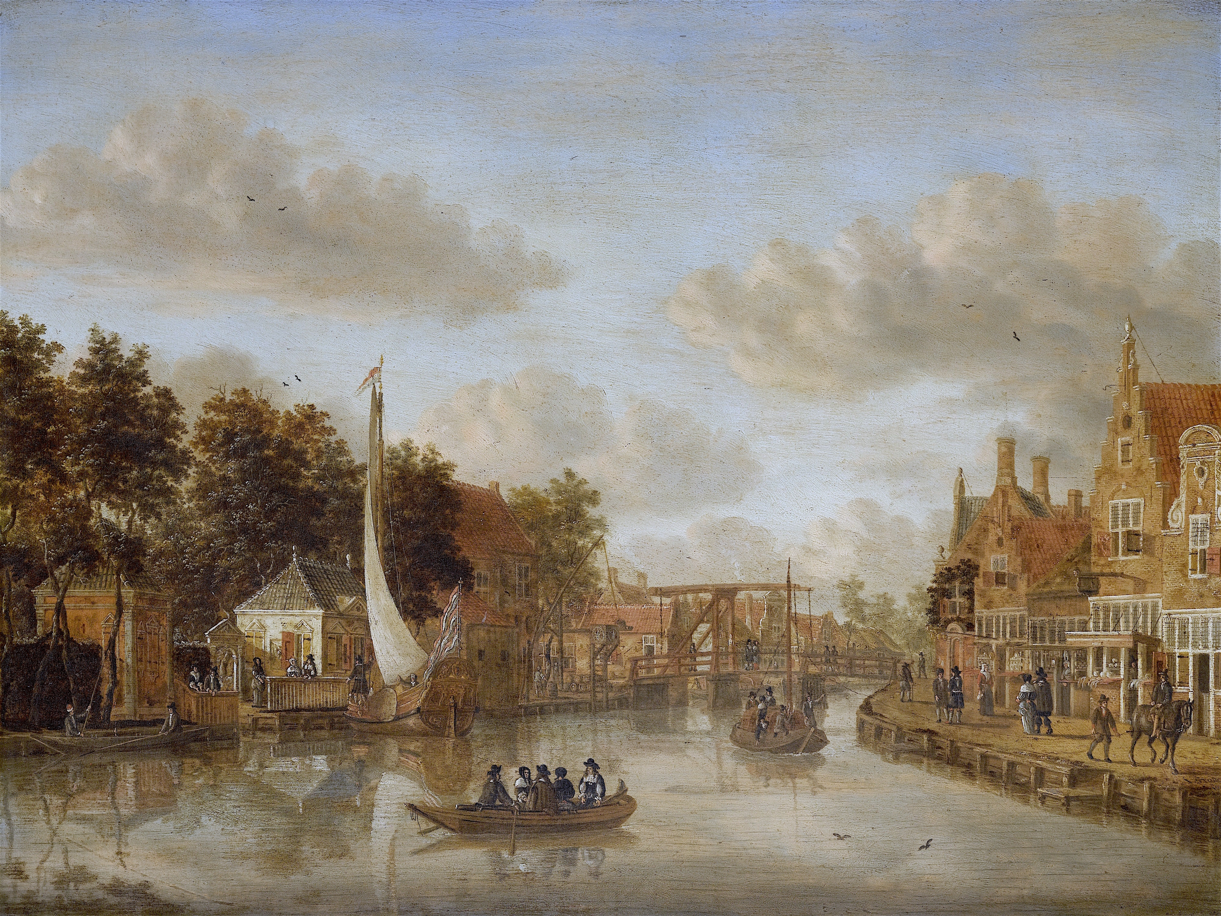 Amsterdam, A View on the Overtoom, Oil on panel painting by Jacobus Storck